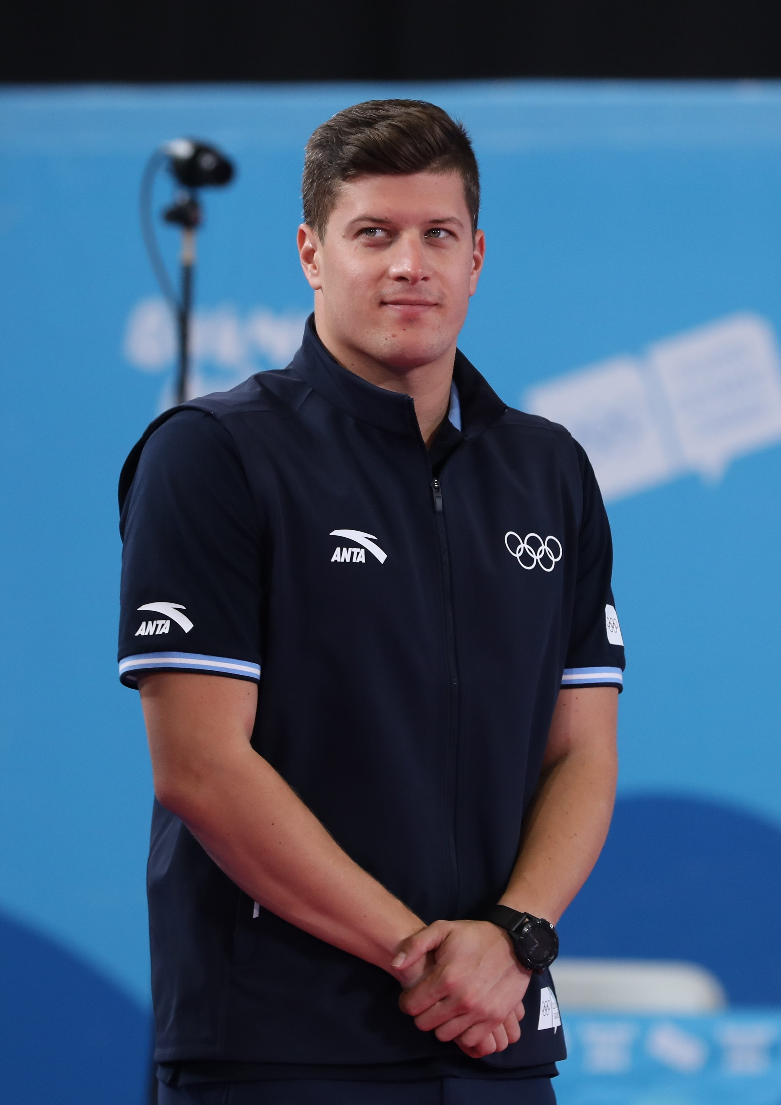 Karate victory ceremony of the boys' +68 kg at the 2018 Summer Youth Olympics in Buenos Aires on 18 October 2018.